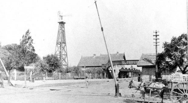 San Isidro railway station and level crossign with gates.